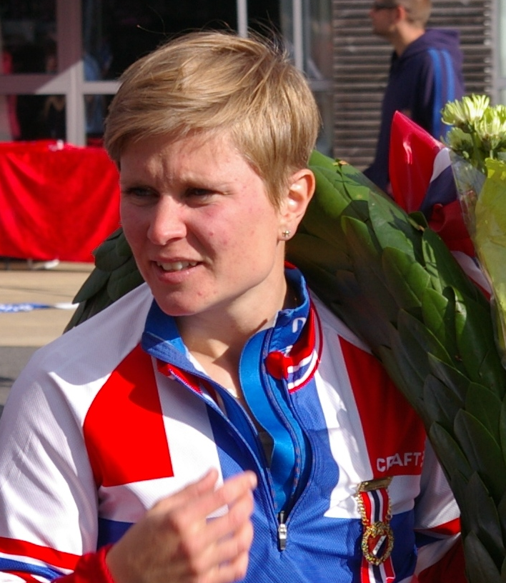 Hildegunn Gjertrud Hovdenak after winning the Norwegian championship in road racing cycling 2012